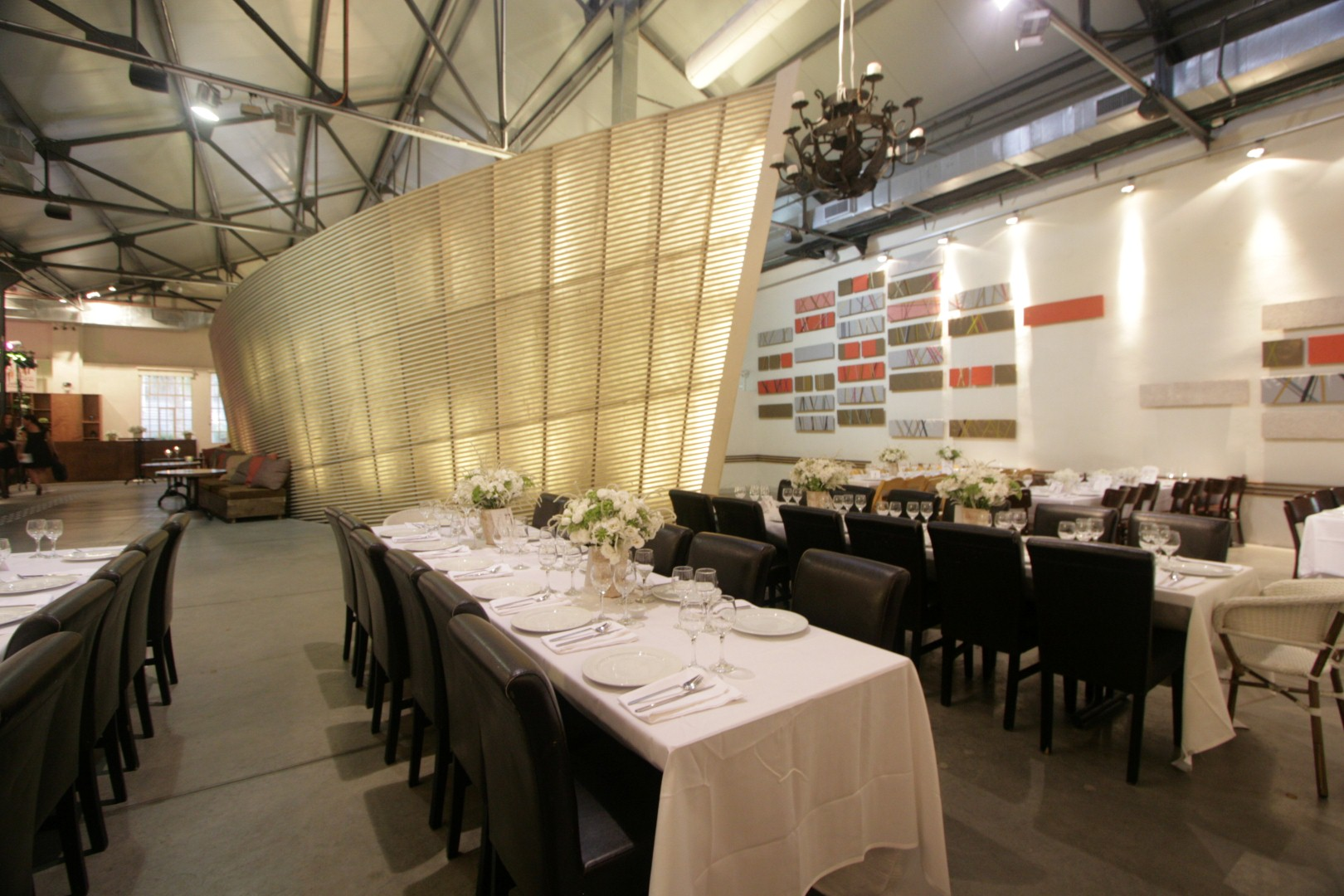 Nalagaat Center and Blackout restaurant